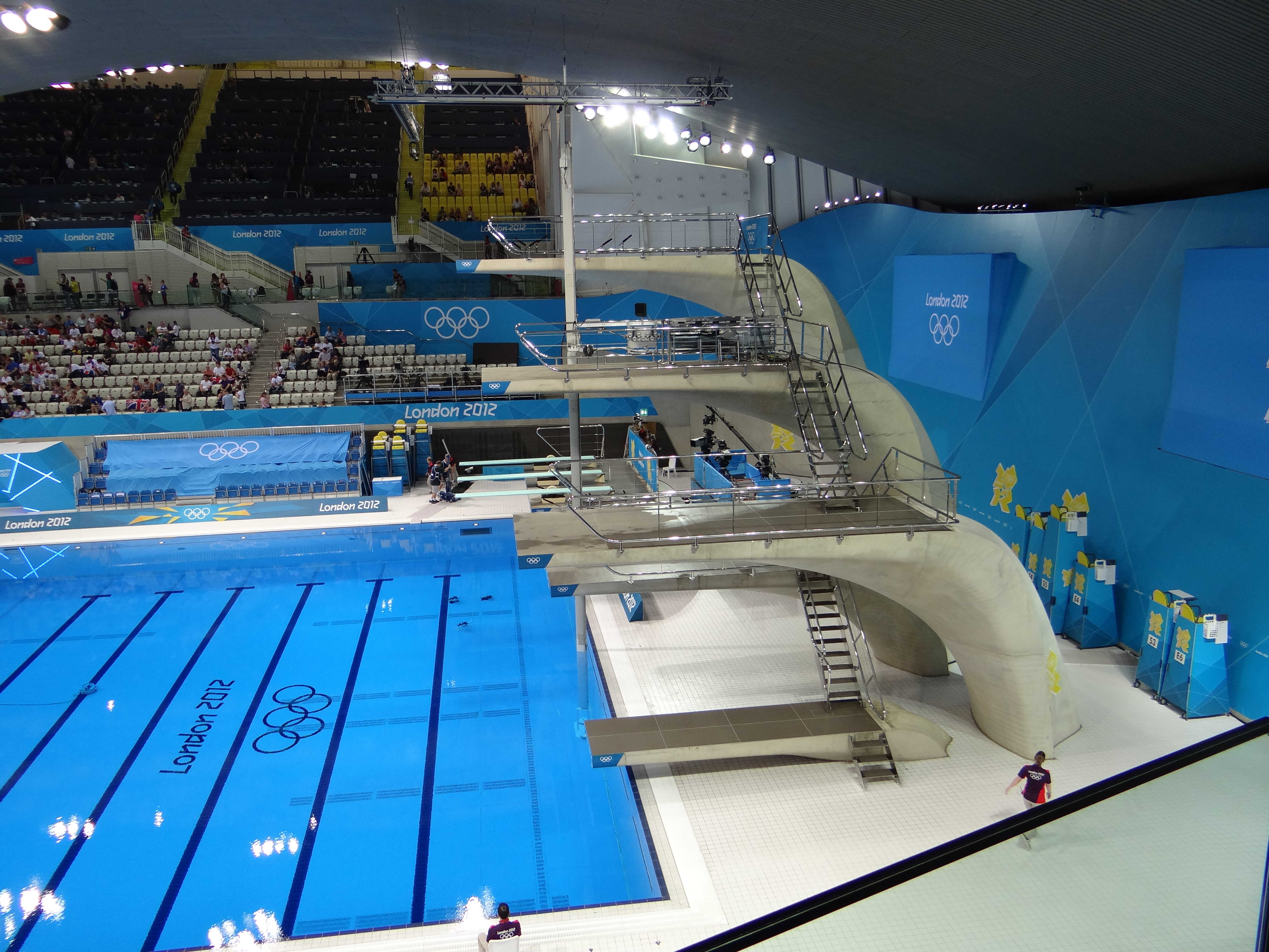 London 2012 Olympics Aquatics Centre